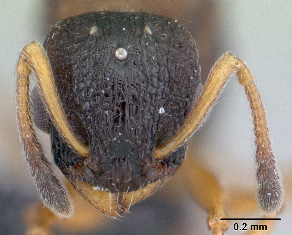 Head view of ant Temnothorax albipennis specimen casent0178236.